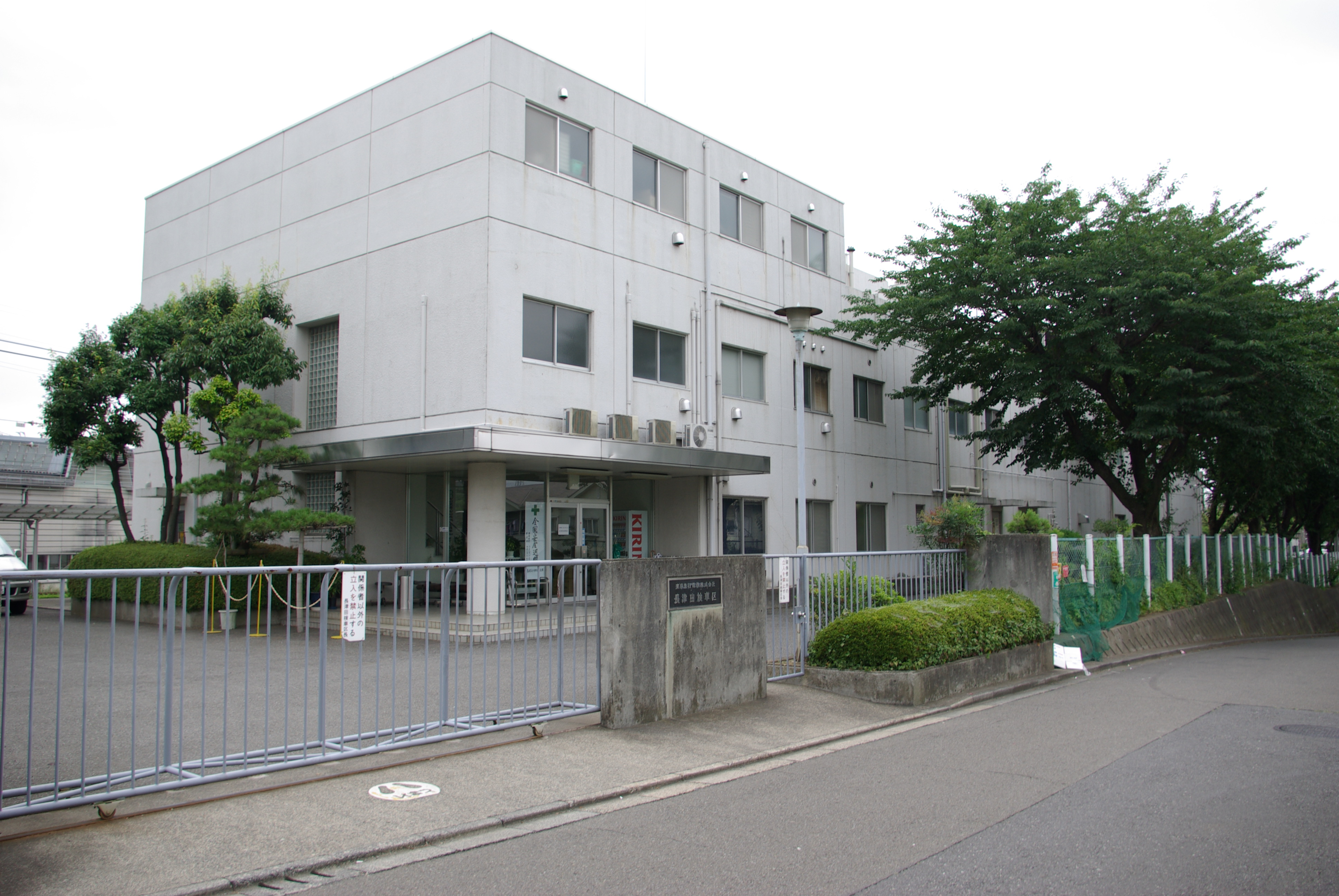 Nagatsuta Inspection Depot of Tokyo Kyuko Electeric Railway